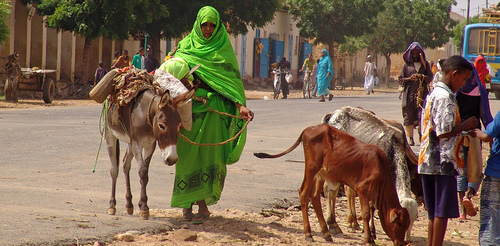 Agordat, Eritrea.